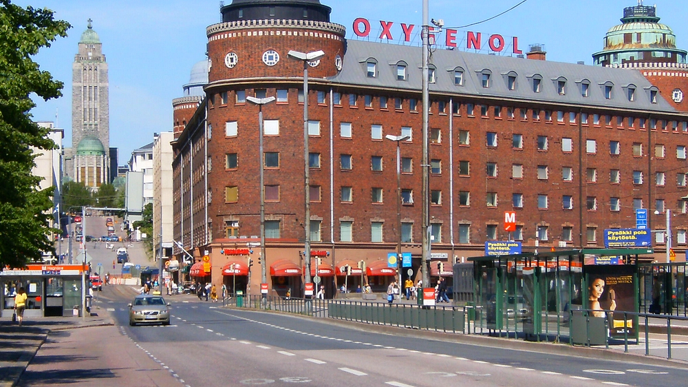 Arenan talo ("The Arena House", on the right) in Hakaniemi, Helsinki, Finland; The Kallio Church on the left